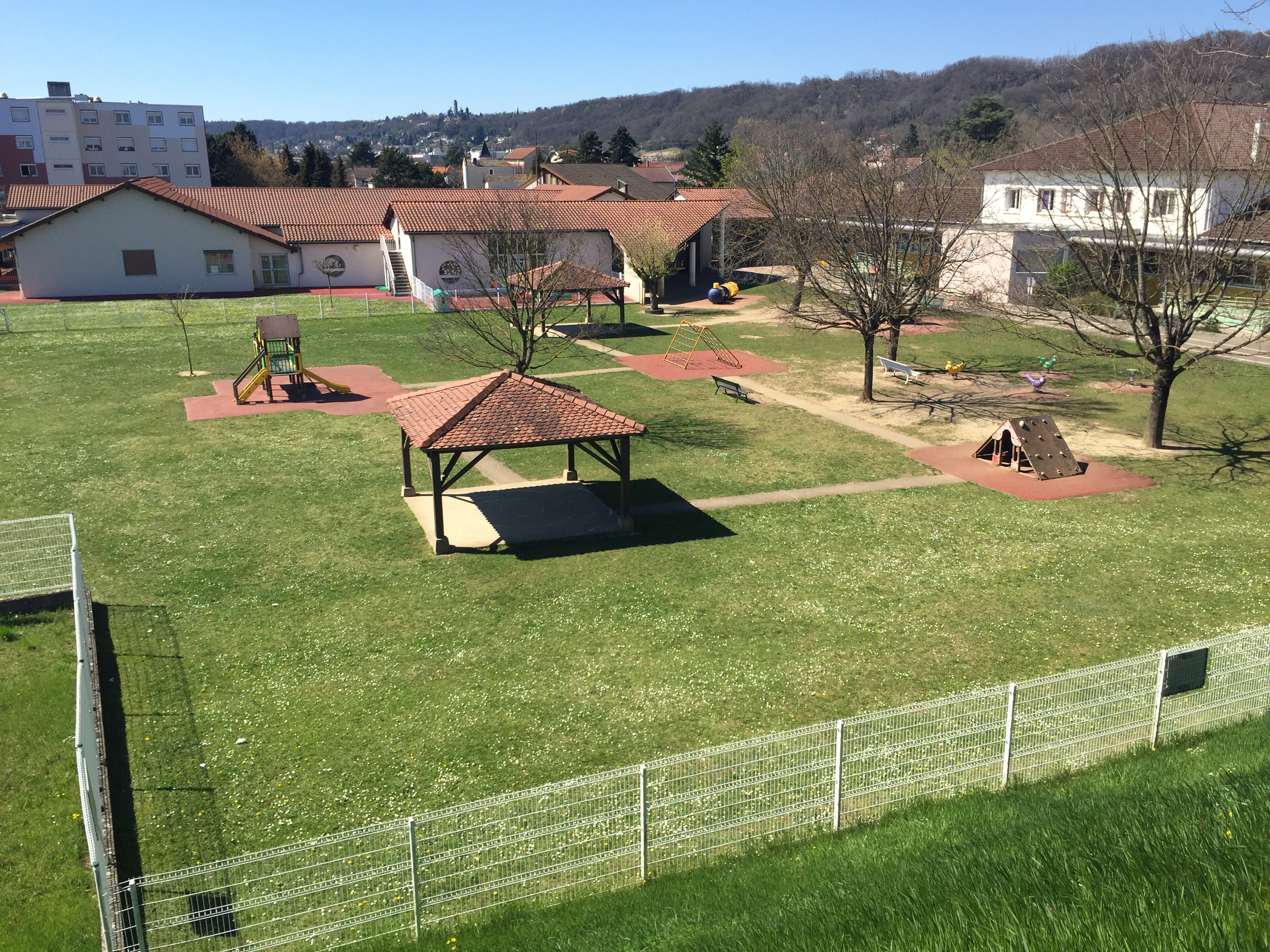 This photograph was taken with an iPhone 6